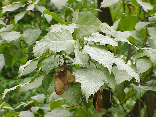 Species: Acer tataricum Family: Aceraceae Image No. 1